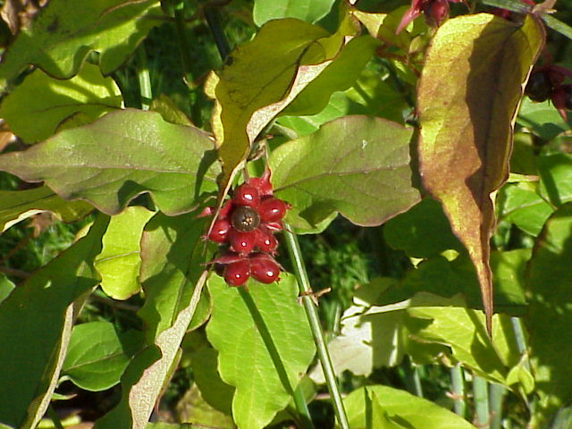 Species: Leycesteria formosa Family: Caprifoliaceae Image No. 1